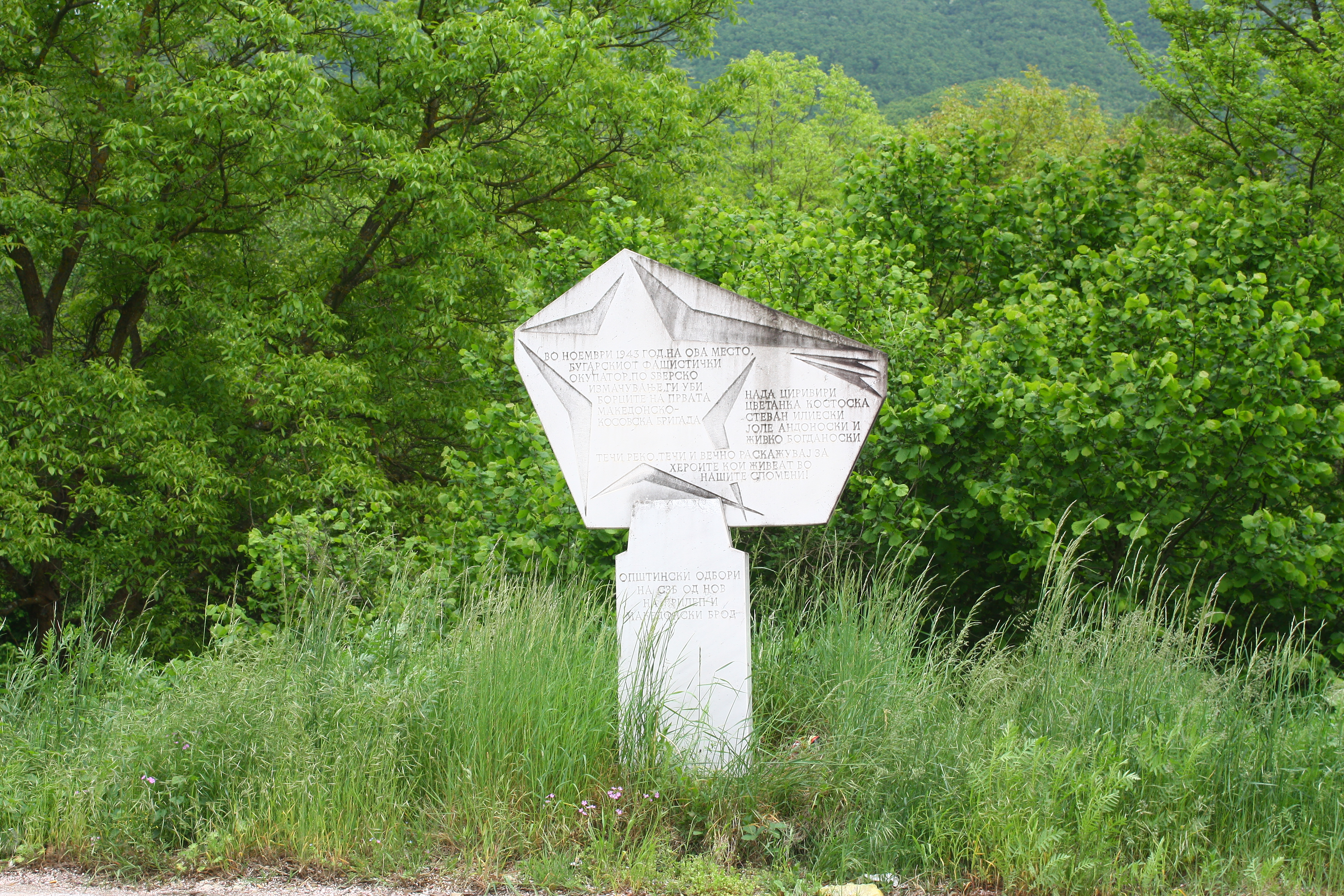 II World War monument near Rusjaci, Macedonia